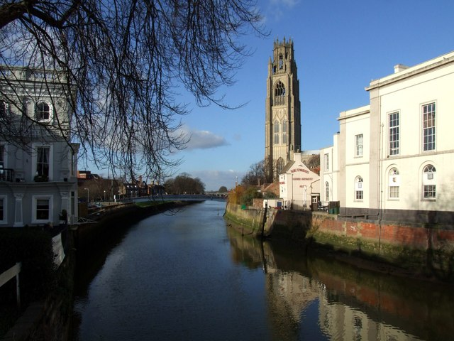 St Botolph, Boston This year sees 700 years of history (1309-2009) of the church, which is to be marked by a celebration. for an overview of the special events, which start on February 8th and go on until December 10th. The '700 Years of History' Exhibition will be launched on April 27th. Beneath the towering Church of St Botolph, is the River Witham, also know as The Haven. The view is from Town Bridge. Just upstream is the footbridge, St Botolph's Bridge, which leads from Church Lane and the Market Place, to the Bus Station. Beyond is Grand Sluice Bridge, which links Tattershall Road with Fydell Street. Further on is the railway bridge carrying the Grantham to Skegness railway.